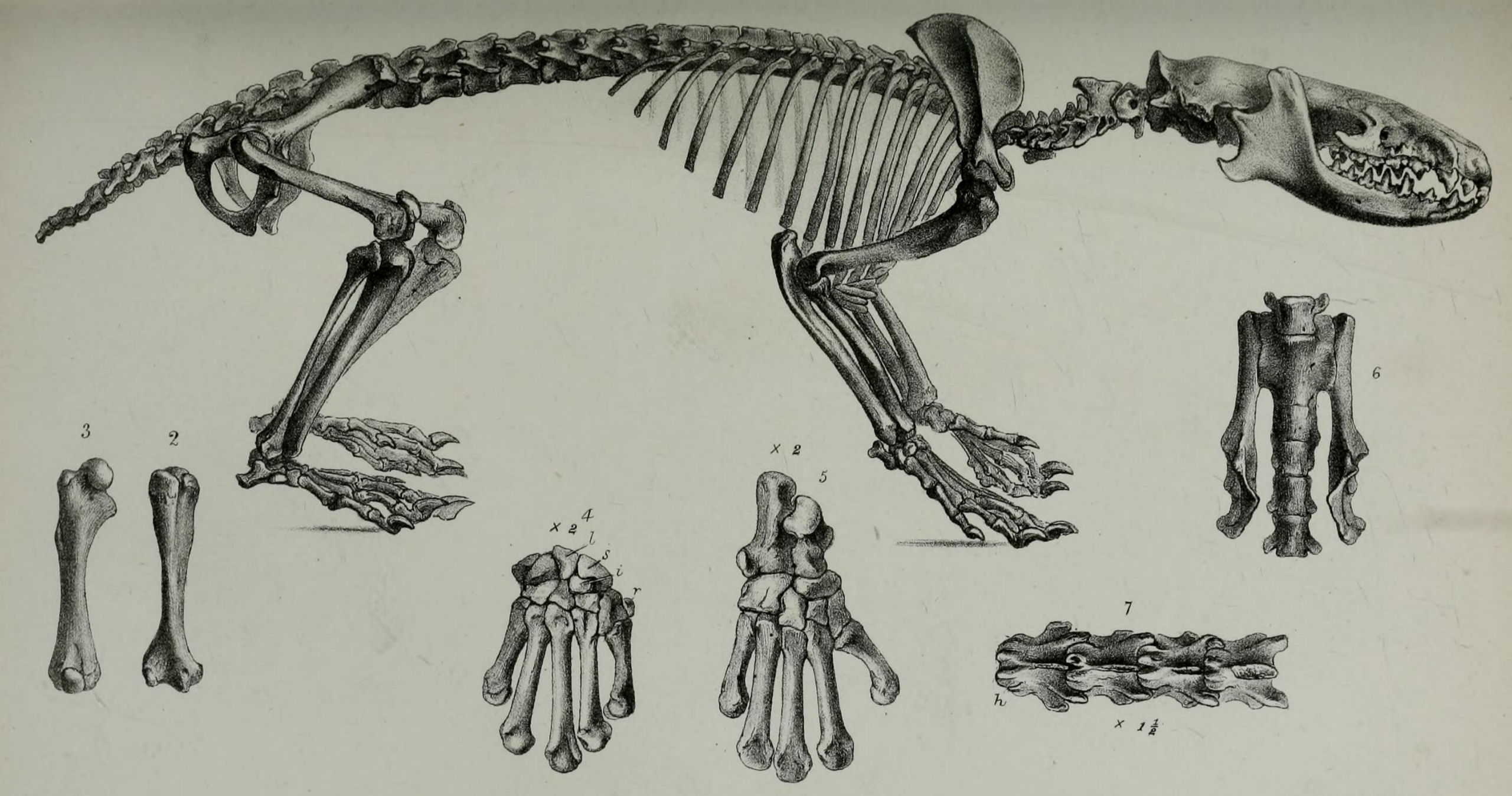 Skeleton of the Greater Hedgehog tenrec (Setifer setosus), published by St. George Mivart: On Hemicentetes, a new Genus of Insectivora, with some additional remarks on the osteology of that order. Proceedings of the Zoological Society of London, 1871, pp. 58–79